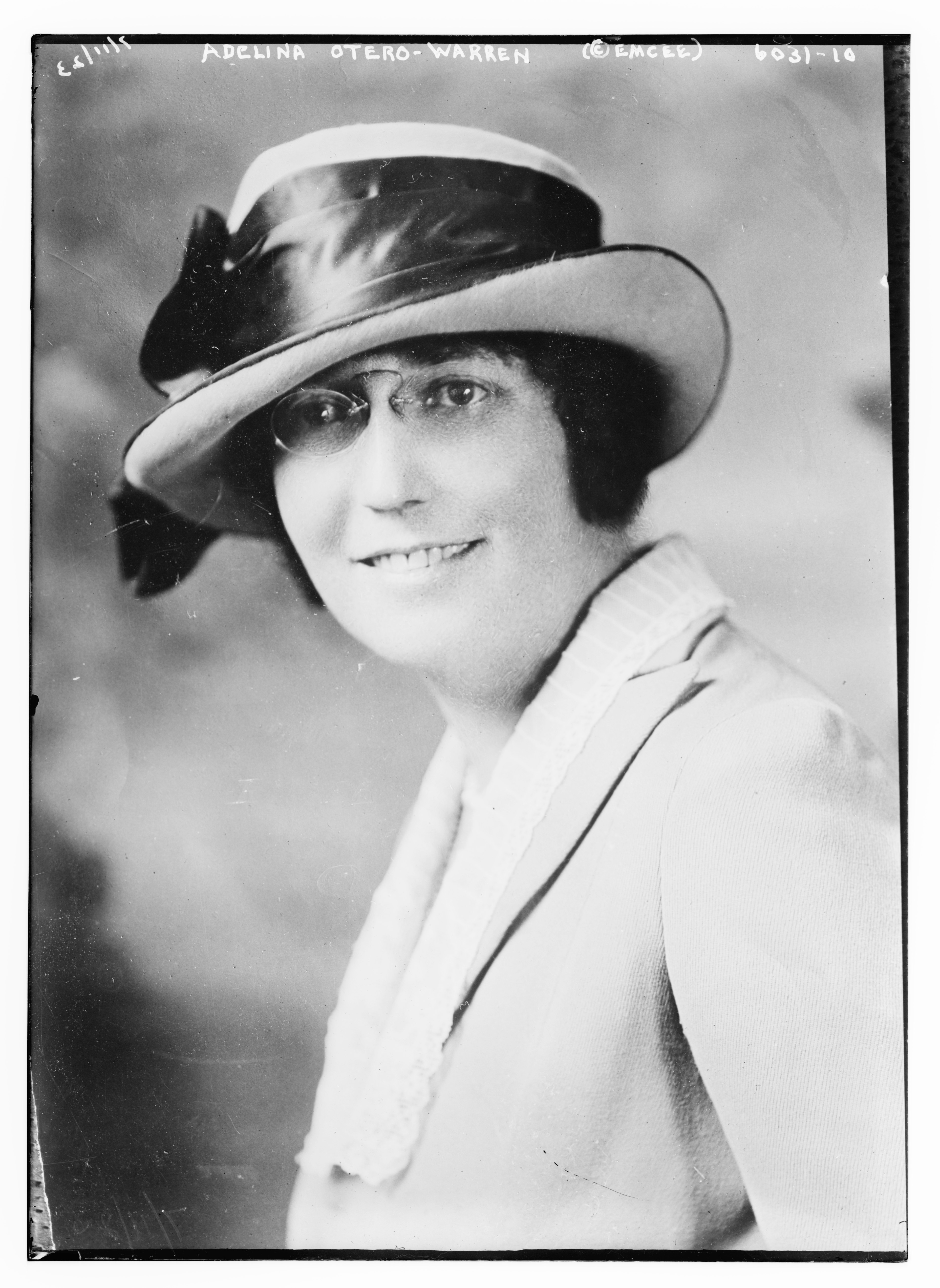 Title: Adelina Otero-Warren Abstract/medium: 1 negative : glass ; 5 x 7 in. or smaller.